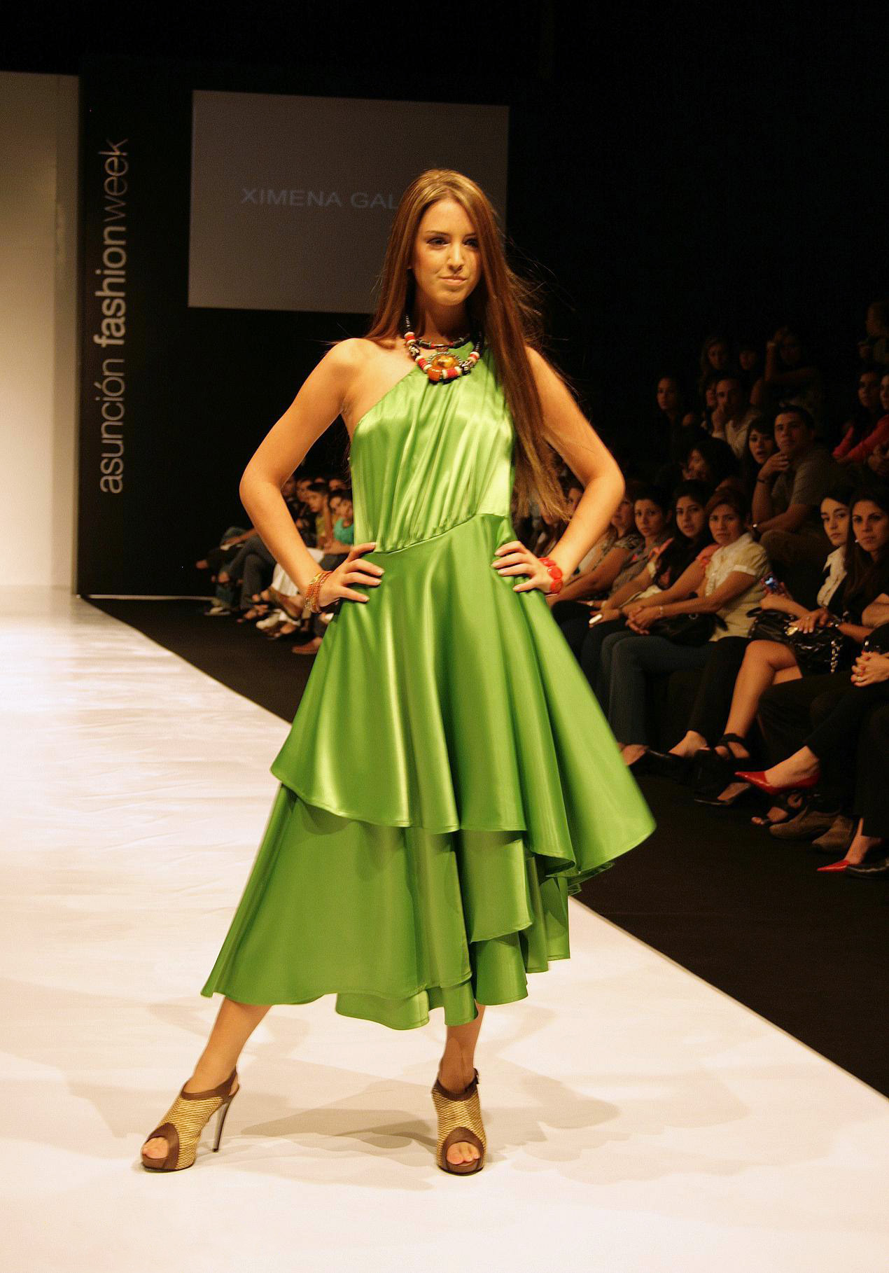 Asunción Fashion Week 2010